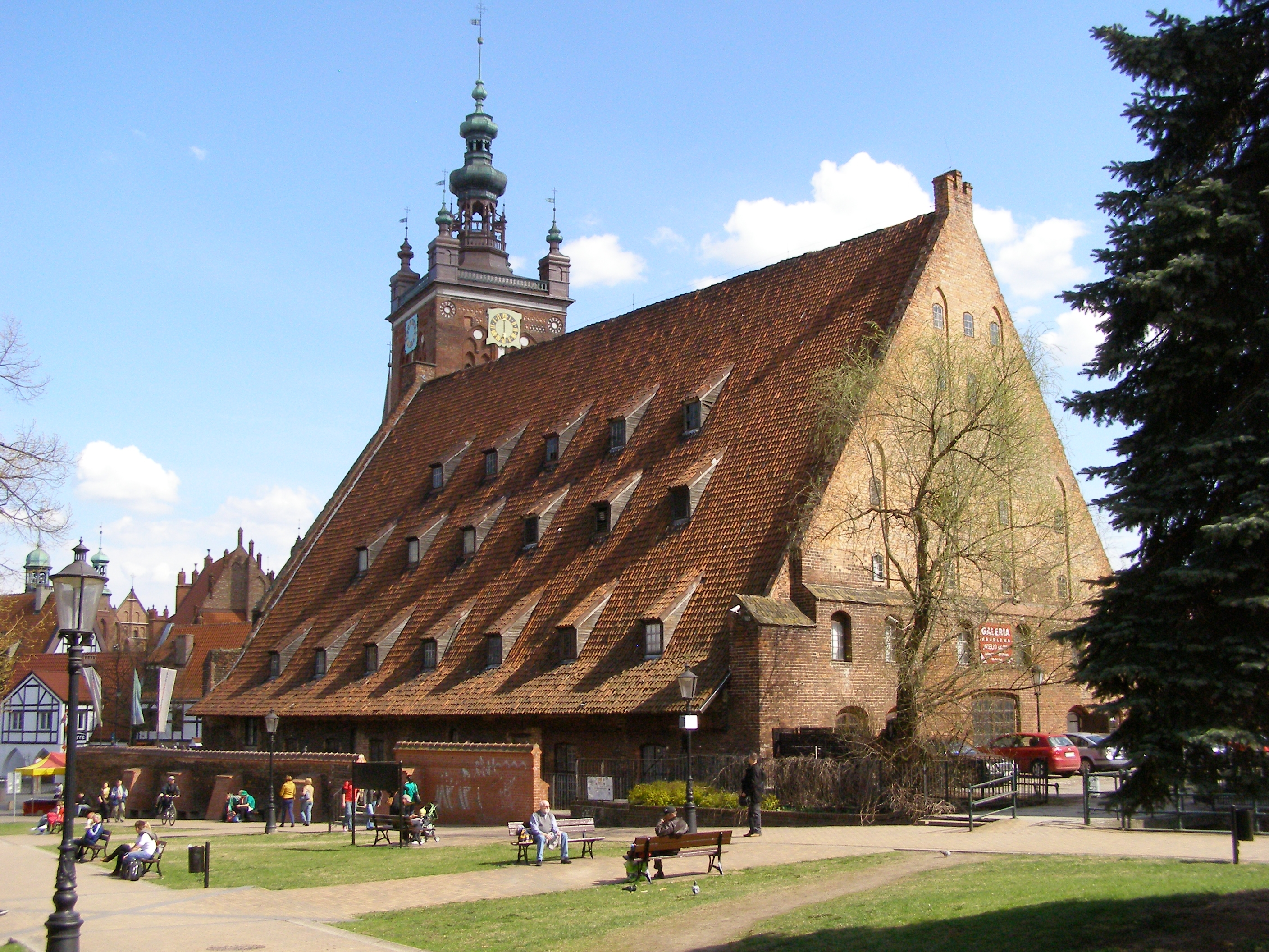 Gdańsk - Hevelius square and the Great Mill